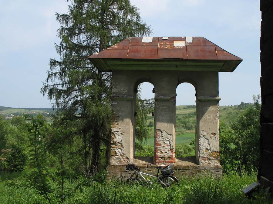 Chyrzynka (Poland), Greek Catholic church.